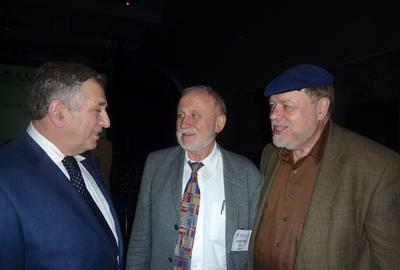 Photo of Sylvain Cappell (right), Joachim Heinze (middle), Yakov Sinai (left)